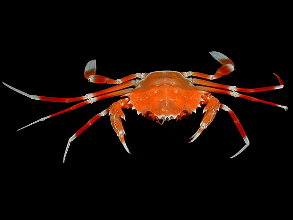 The bathyal swimming crab (Bathynectes longispina), a deep-water swimming crab from the Portunidae family. Note the visible deep-water adaptations.